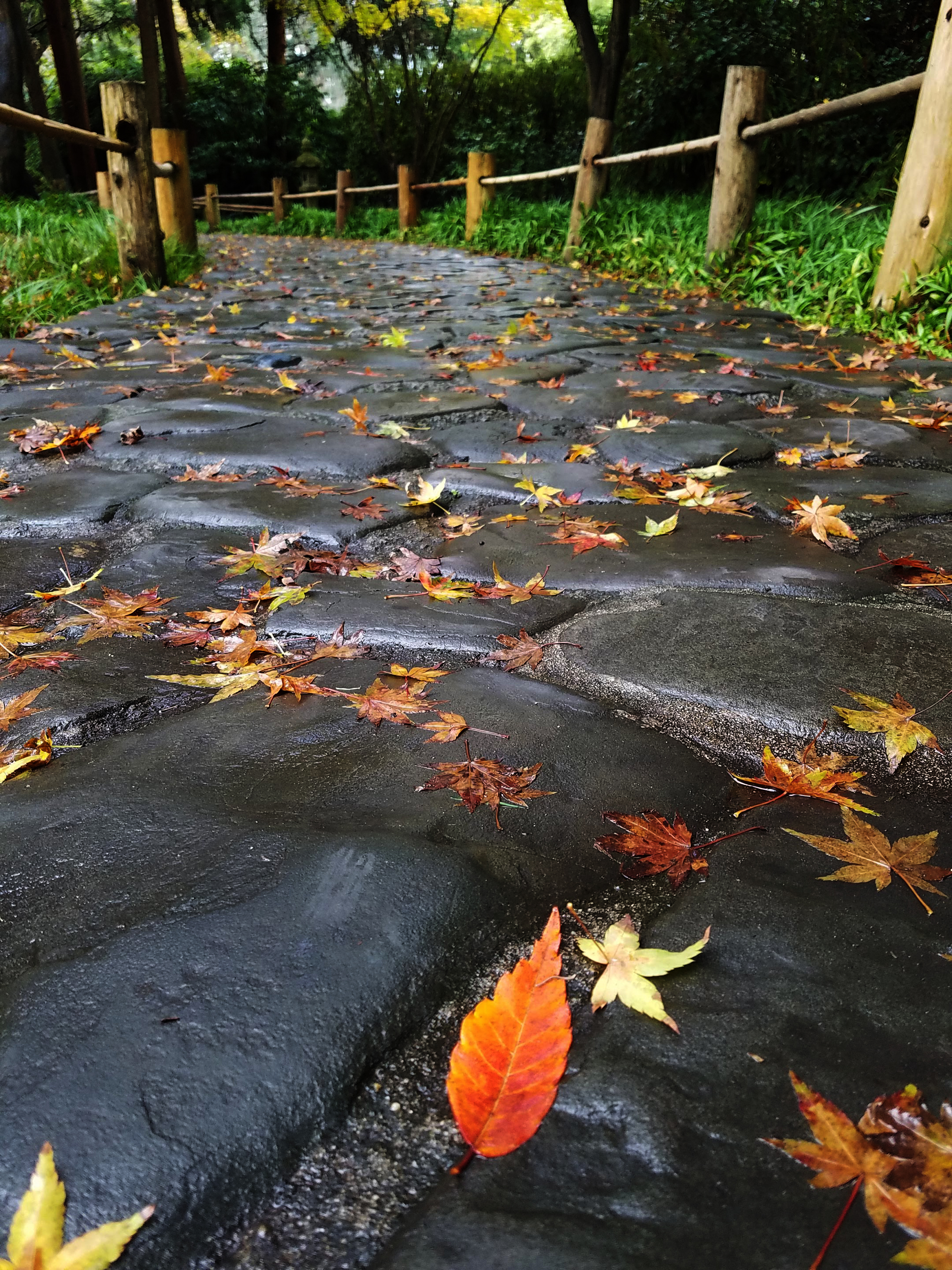 red leaf on a wet cobblestone path